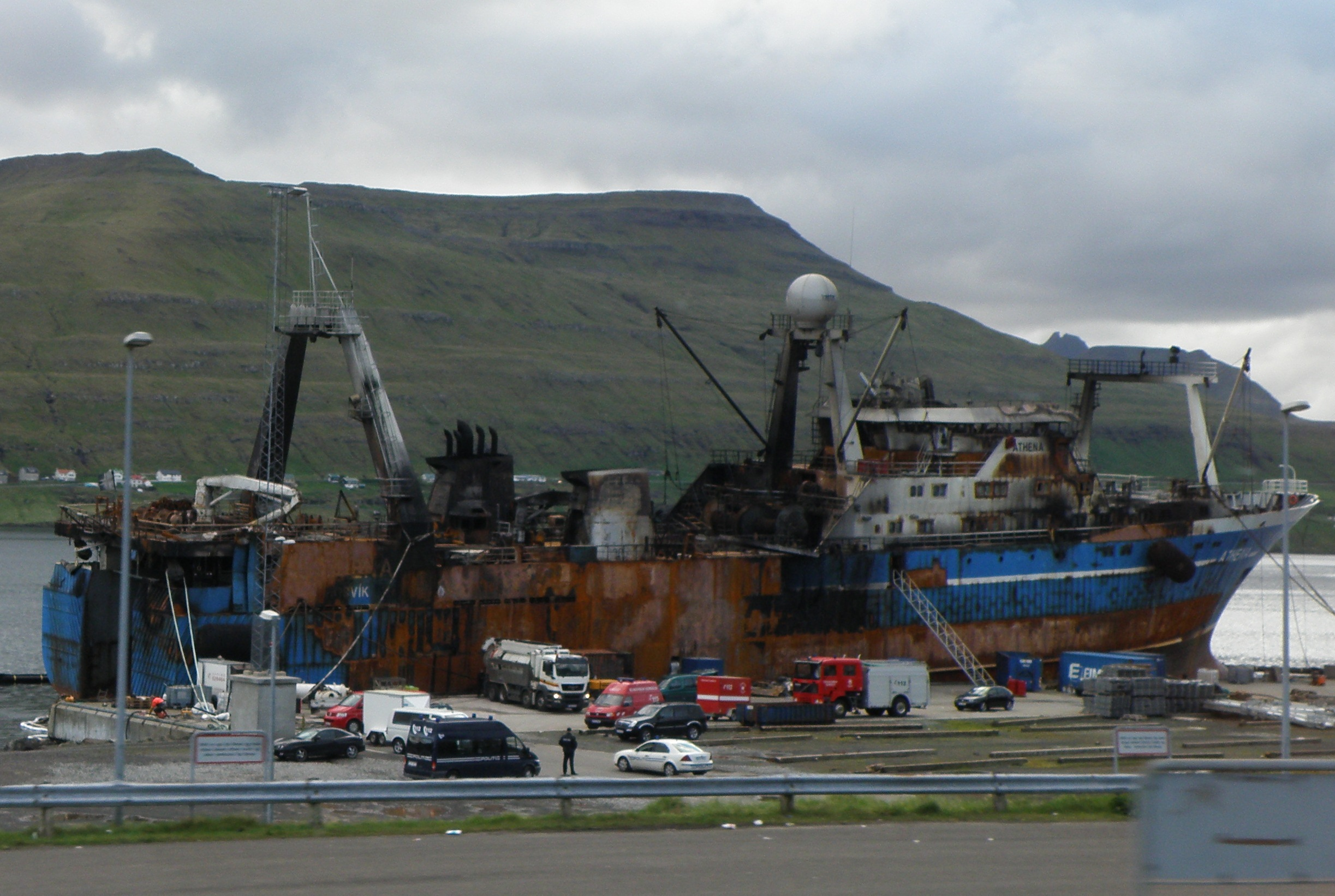 Athena is a fishing trawler, built in 1992. From 2005 to 2011 it belonged to Thor from Hósvík in the Faroe Islands. The ship has been very unlucky, three times it has been on fire. The last time it happended was on 9 May 2011 when the ship was lying in the harbour of Runavík in the Faroe Islands. People were evacuated from the villages around the place, especially people who lived on the other side of the fjord Skálafjørður in Strendur and Glyvrar. This photo was taken five days after the fire on 14 May 2011. Føroyskt: Athena var ein føroyskur trolari, sum Thor úr Hósvík átti. Skipið varð bygt í 1992, men tað hevur verið rakt sera meint av brand vanlukkum. Tríggar ferðir hevur eldur verið í skipinum, seinastu ferð tað hendi var 9. mai 2011, meðan skipið lá við kai í Runavík. Fólk sum búðu tætt við og tey sum búðu hinumegin fjørðin, higar roykurin lá, úr bygdunum Skála og Glyvrum, vóru flutt til bygdarhúsið á Strondum á miðjari nátt.